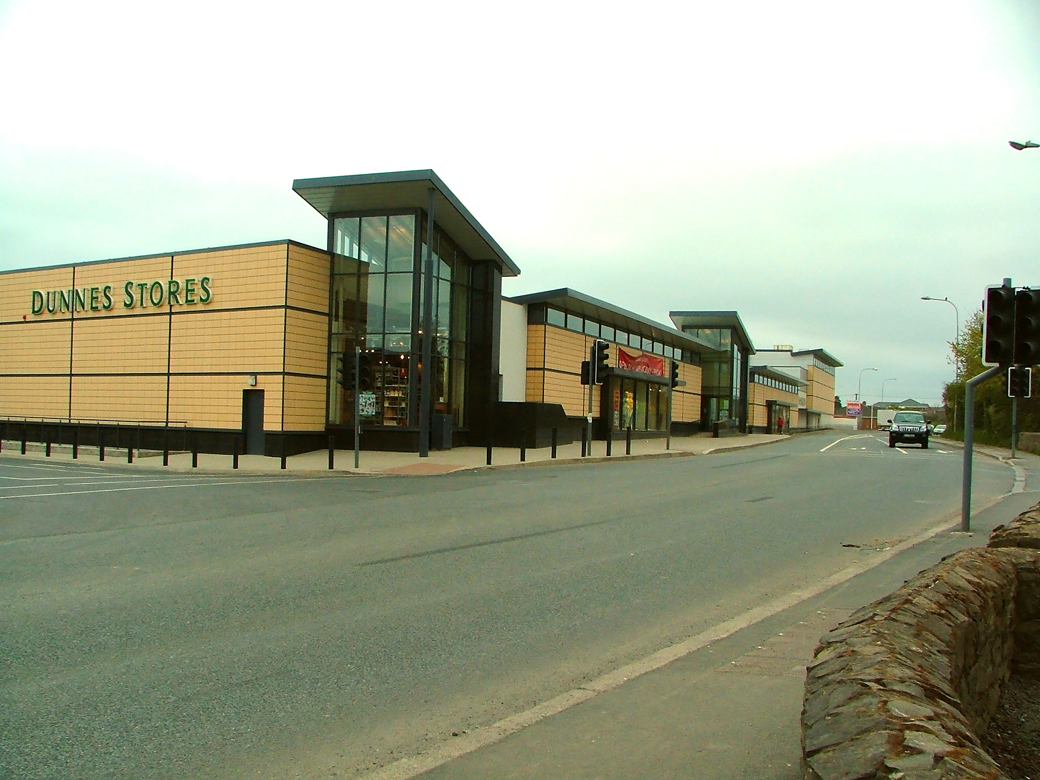 Dunnes Stores Ashbourne, Co. Meath, Ireland.